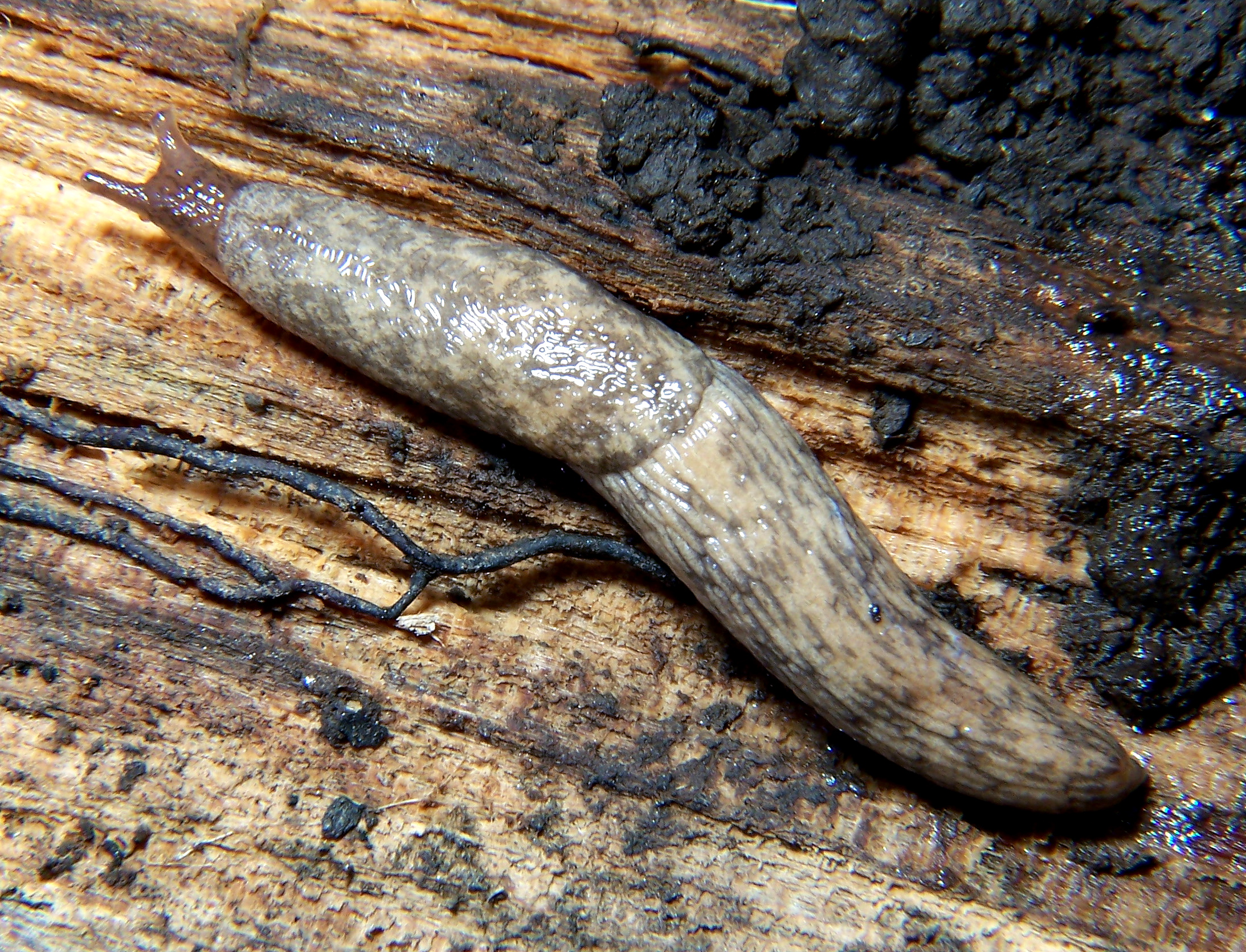 Adult gray garden slug Deroceras reticulatum